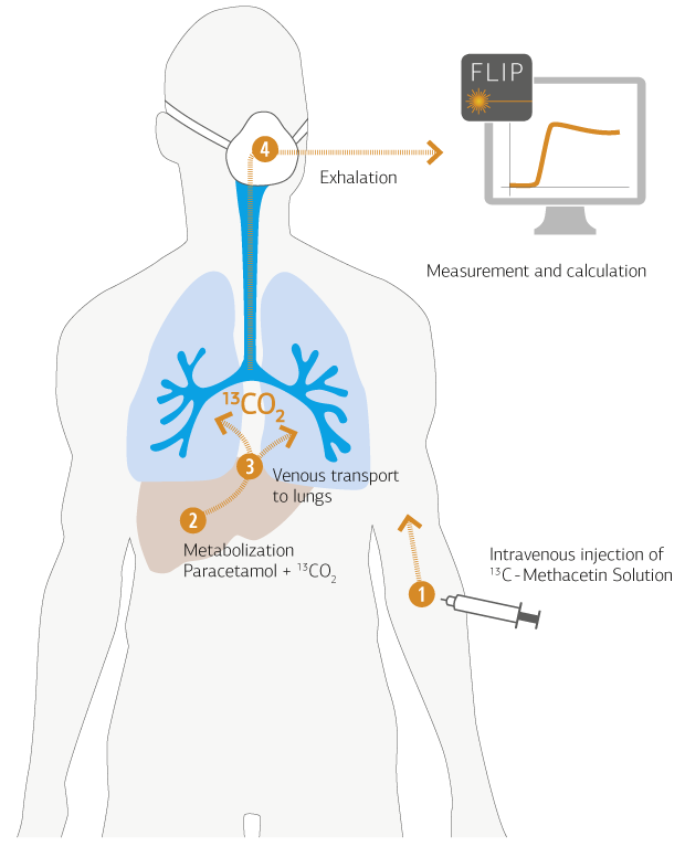 LiMAx liver function test, all rights reserved Humedics GmbH, 2012